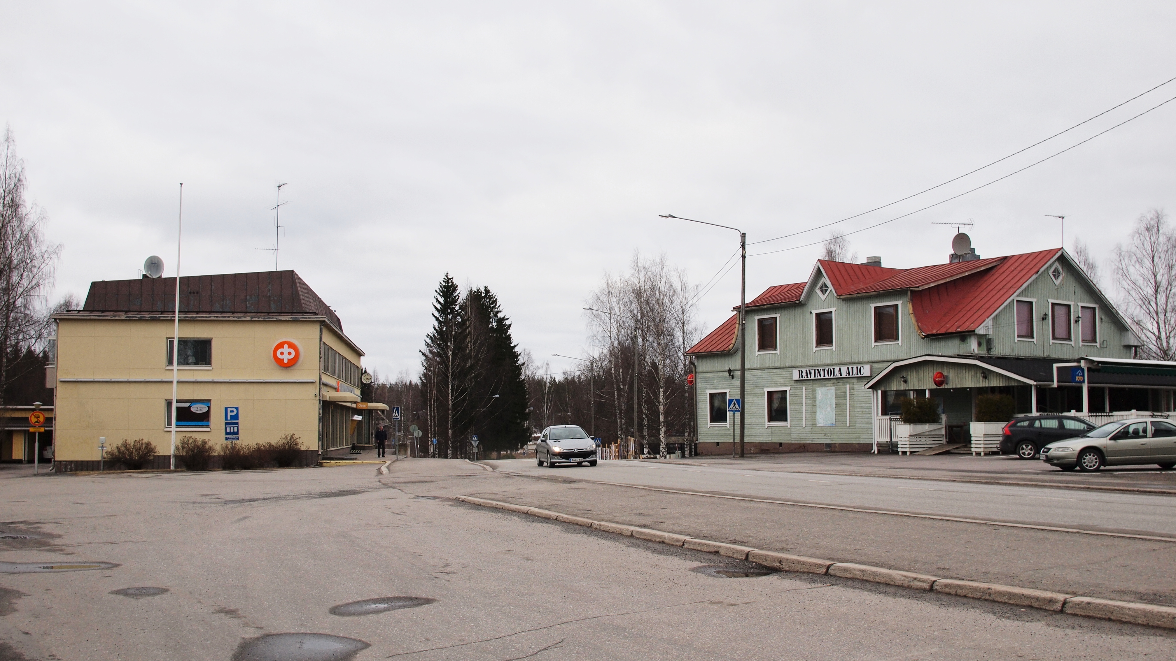 View in the centre of Haukivuori, Mikkeli, Finland, showing Osuuspankki bank branch and restaurant Alic.